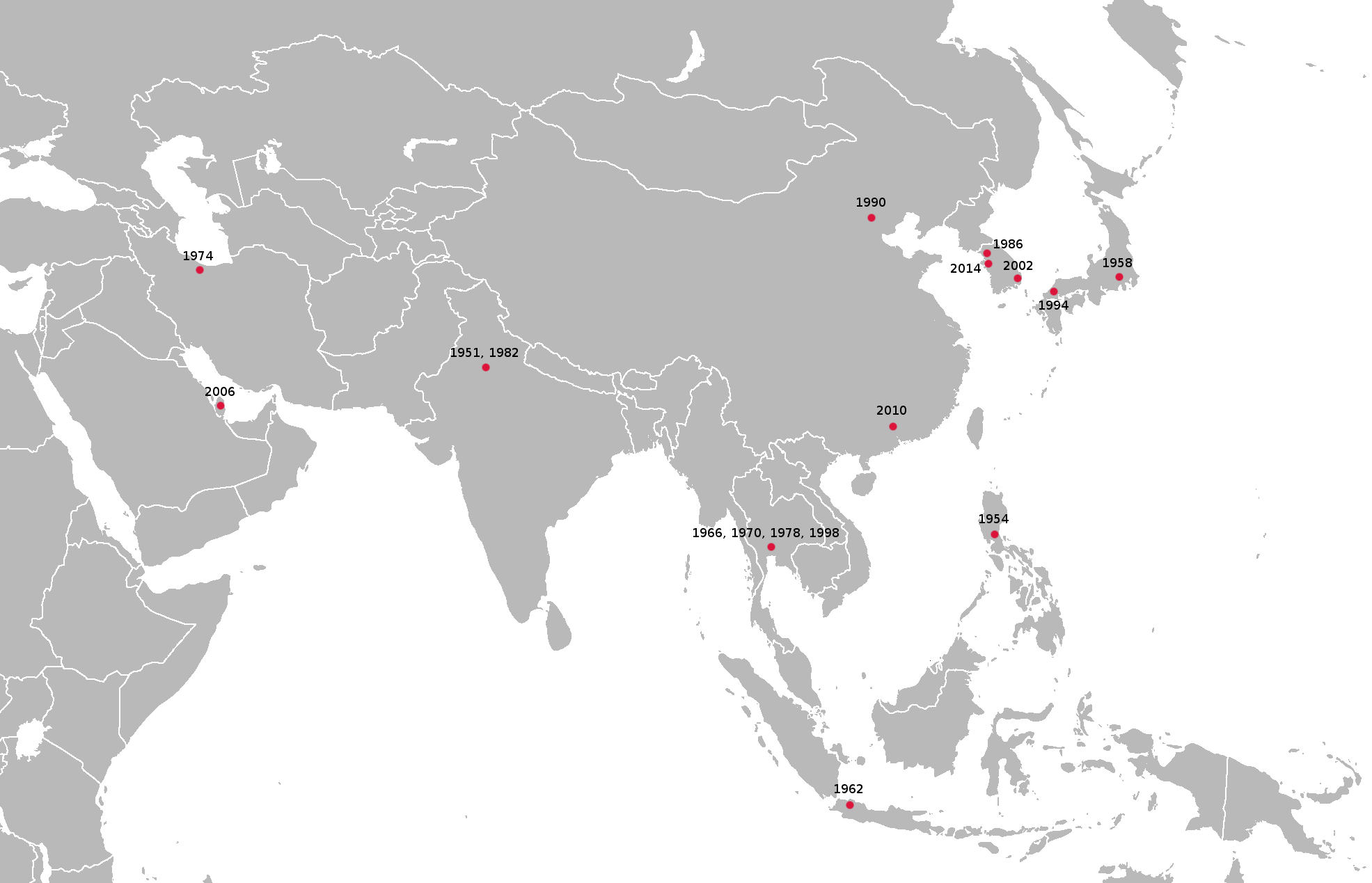 The Asian Games host countries. Red spots indicate the cities they were/are to be hosted in.